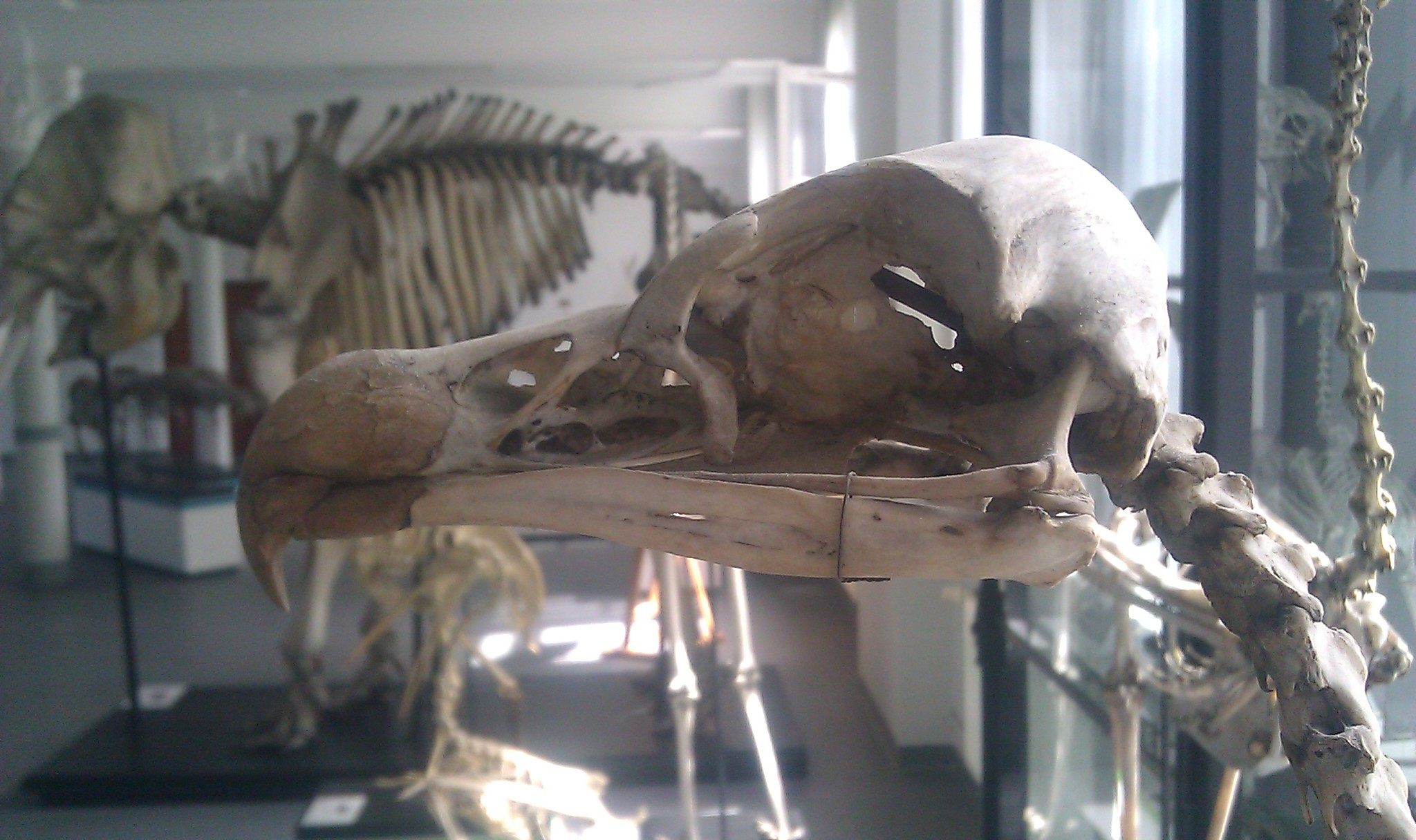 Sagittarius serpentarius, bird skull, Museum of Natural History at University of Wrocław